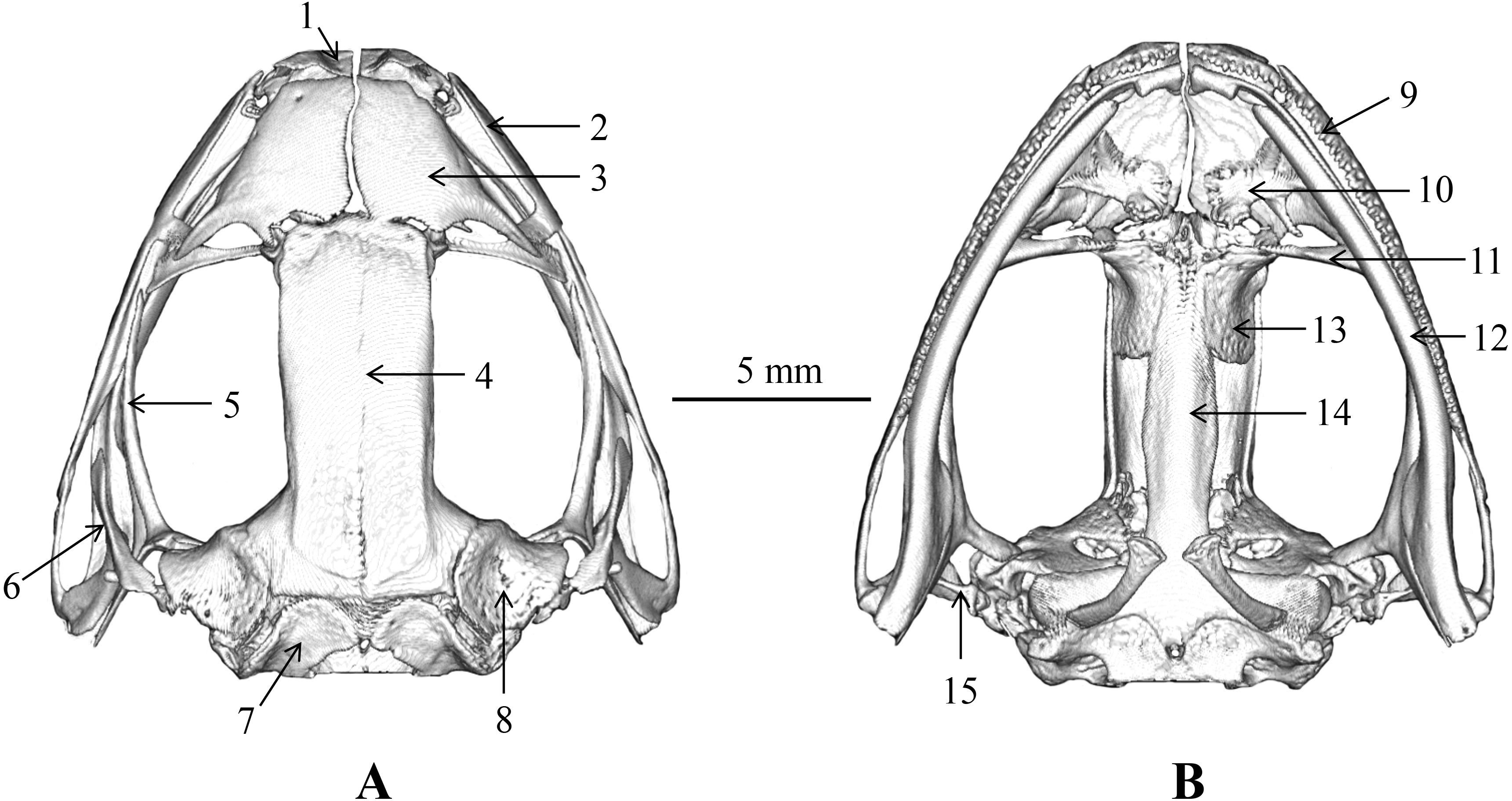 (A) Dorsal view. (B) Ventral view. 1, premaxilla; 2, maxillary; 3, nasal; 4, frontoparietal; 5, pterygoid; 6, squamosal; 7, exoccipital; 8, prootic; 9, maxillary teeth; 10, prevomer; 11, palatine;12, mandible; 13, sphenethmoid; 14, parasphenoid; 15, columella. Photographed by Shize Li.